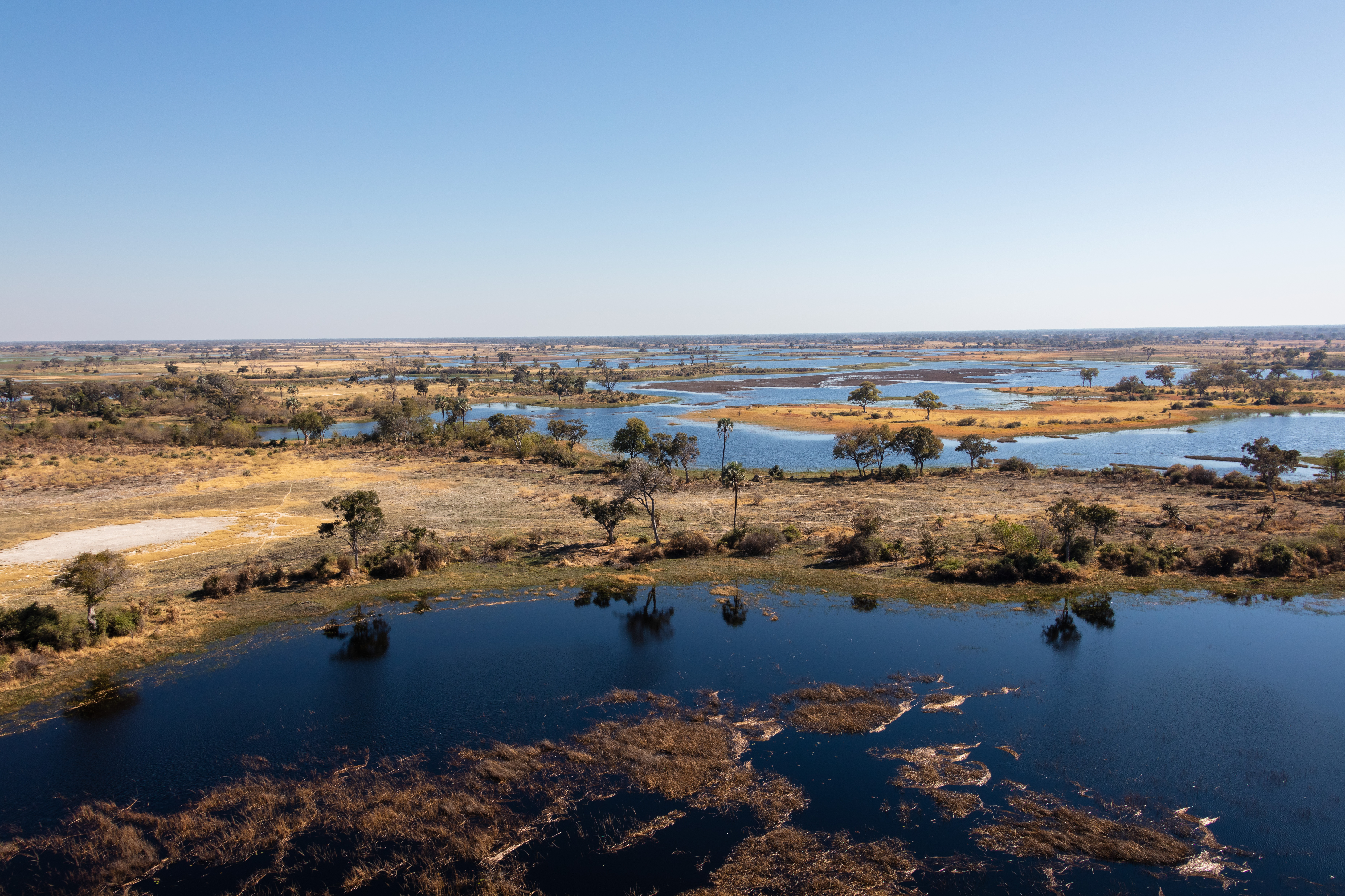 Aerial view of Okavango Delta, Botswana